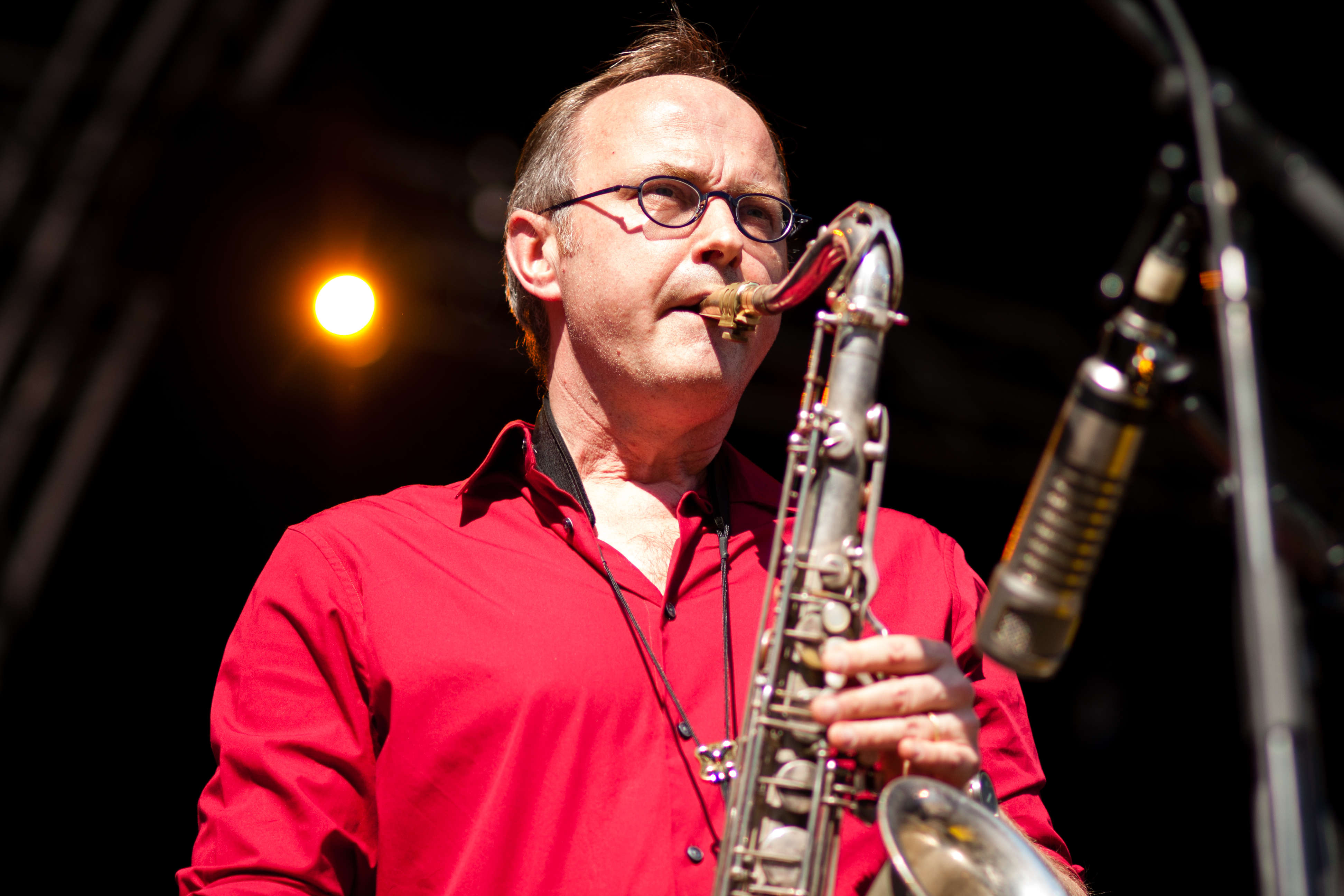 Live from Grand-Place Follow me on facebook Twitter : @didyPhotography All the photographies I've made are now under CC0 (Creative Commons Zero) CC0 - learn more To the extent possible under law, Eddy BERTHIER has waived all copyright and related or neighboring rights to Brussels Jazz Marathon 2012 - Bart Defoort Quartet. This work is published from: France.